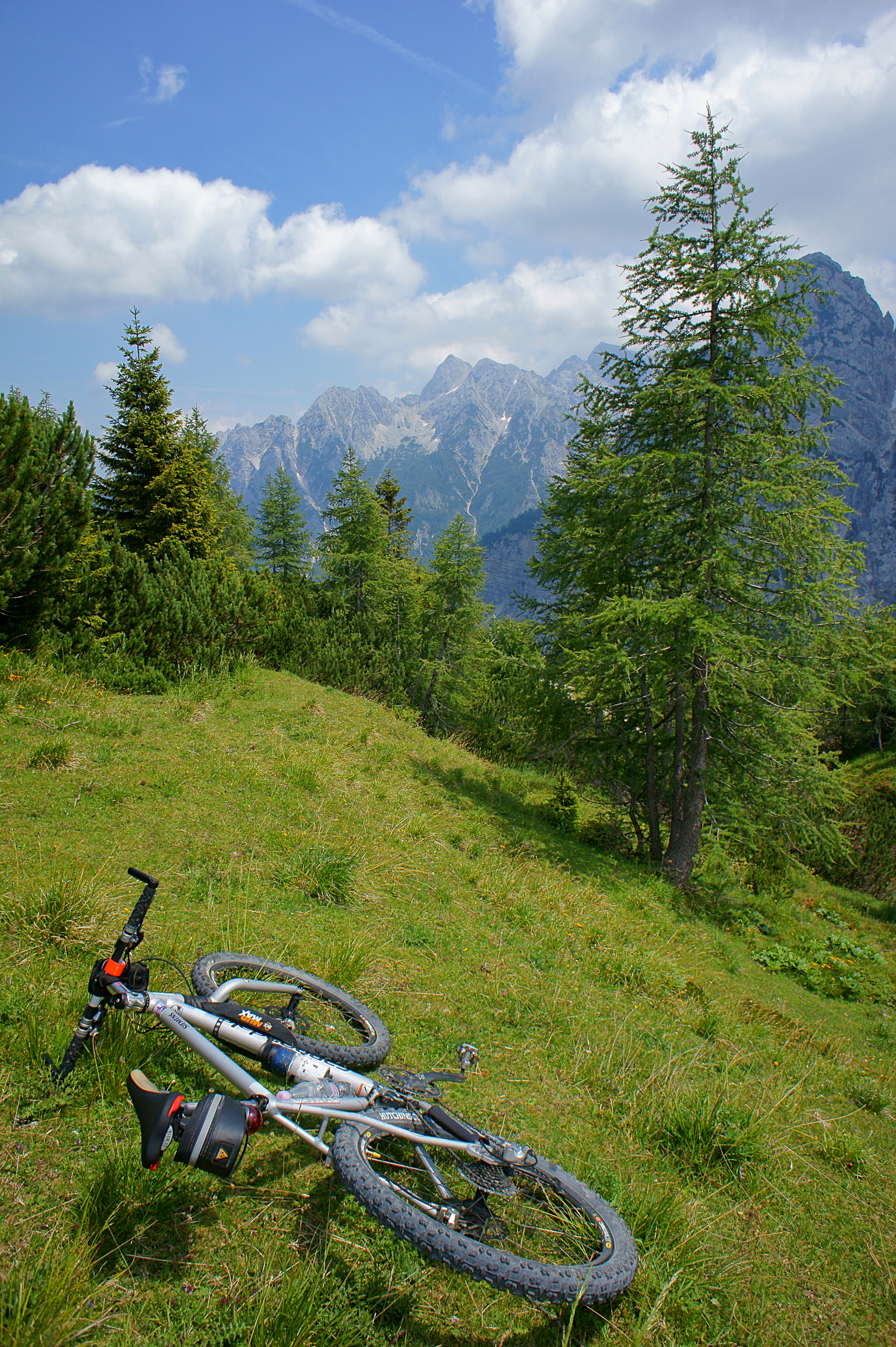 Mountain biking in Julian Alps, view from Vršič - 1680 m, Slovenia.